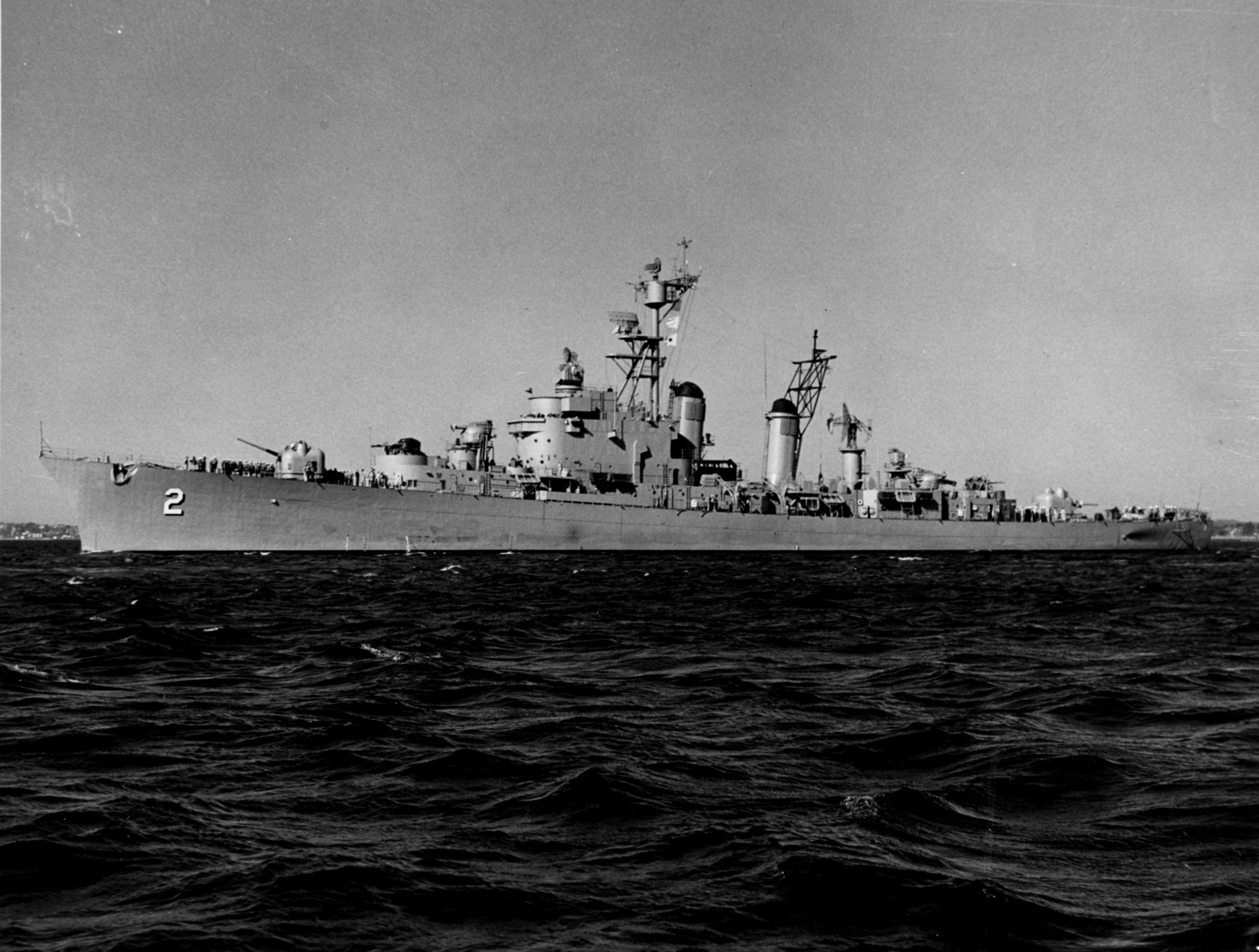 The U.S. Navy destroyer leader ("frigate") USS Mitscher (DL-2) shortly after her commissioning, circa in 1953.